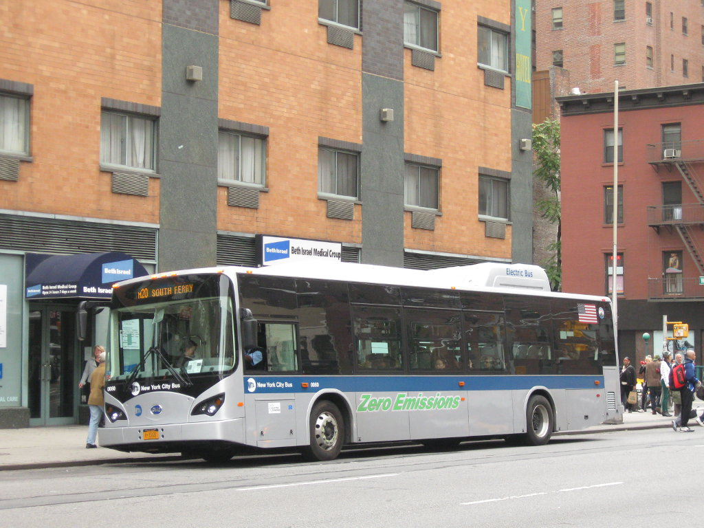 A North American-spec BYD K-9 electric bus (numbered #0060 for a 60-day test in NYC) works the M20 line. Here, it is making a stop in Chelsea at 7 Avenue and West 23 Street, en route to South Ferry. This particular bus was manufactured in China.